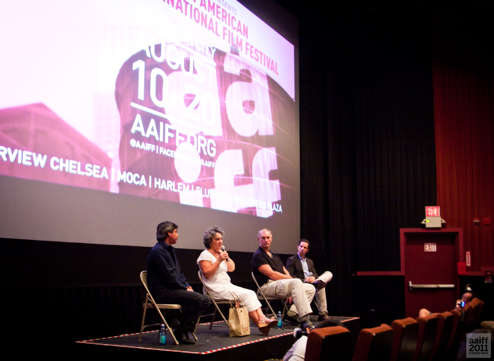 Opening night with John Sayles, during AAIFF '11.